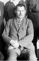 Aleksei Kiselyov at a Central Executive Committee meeting in May 1925.